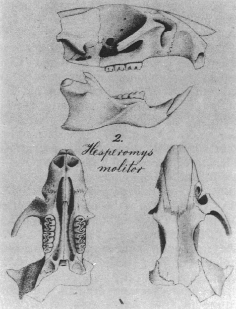 Lectotype partial cranium of Lund's Amphibous Rat (Lundomys molitor) in lateral, dorsal, and ventral view, and lateral view of mandible of an unknown species of rodent (Voss and Carleton, 1993, p. 6).